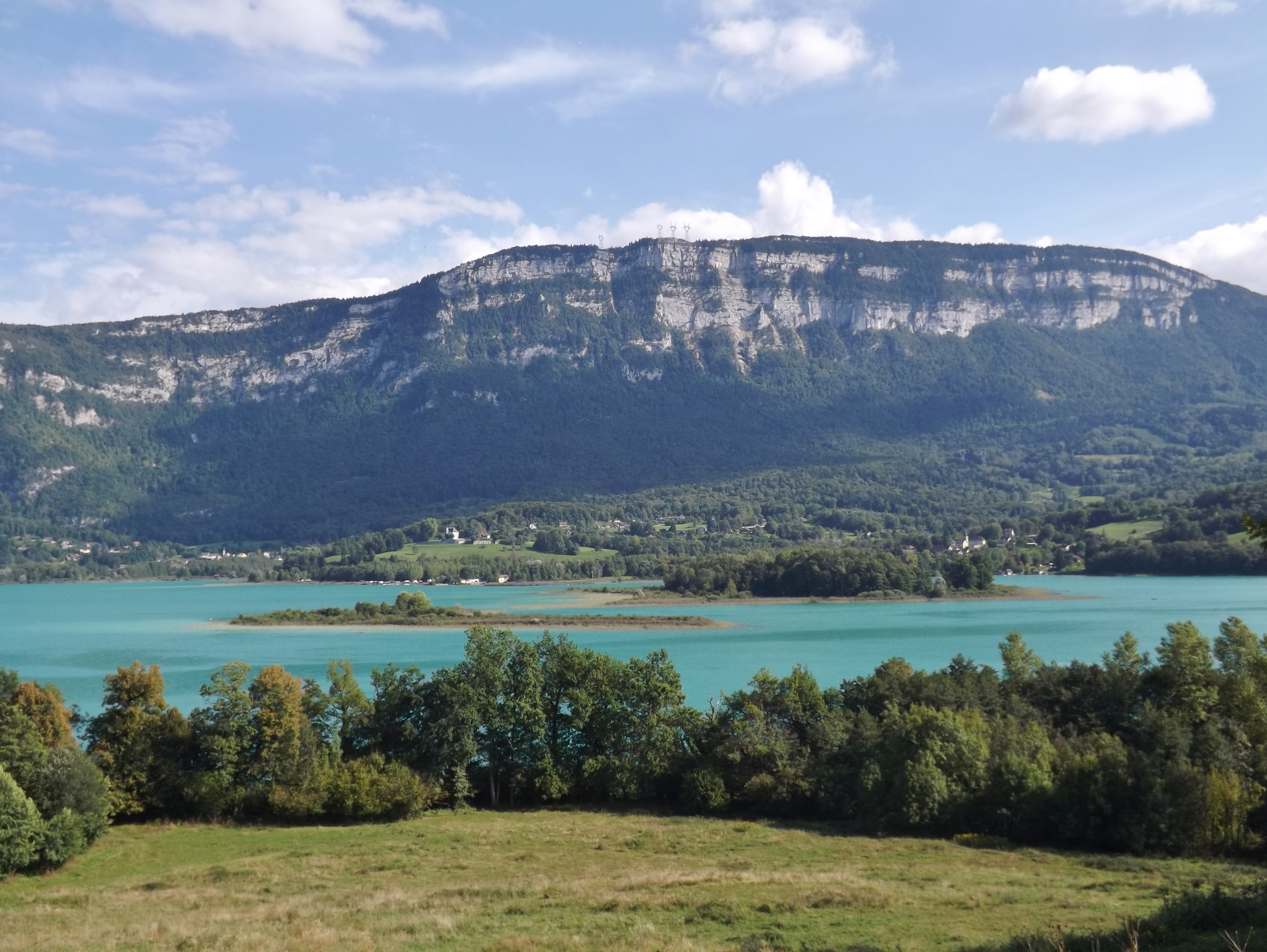 Panoramic sight, from Saint-Alban-de-Montbel, on the lac d'Aiguebelette lake with its two islands, and the chaîne de l'Épine mountain, in Savoie, France.